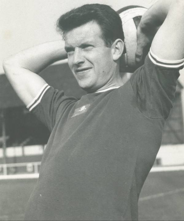 Les Riggs during his playing days.